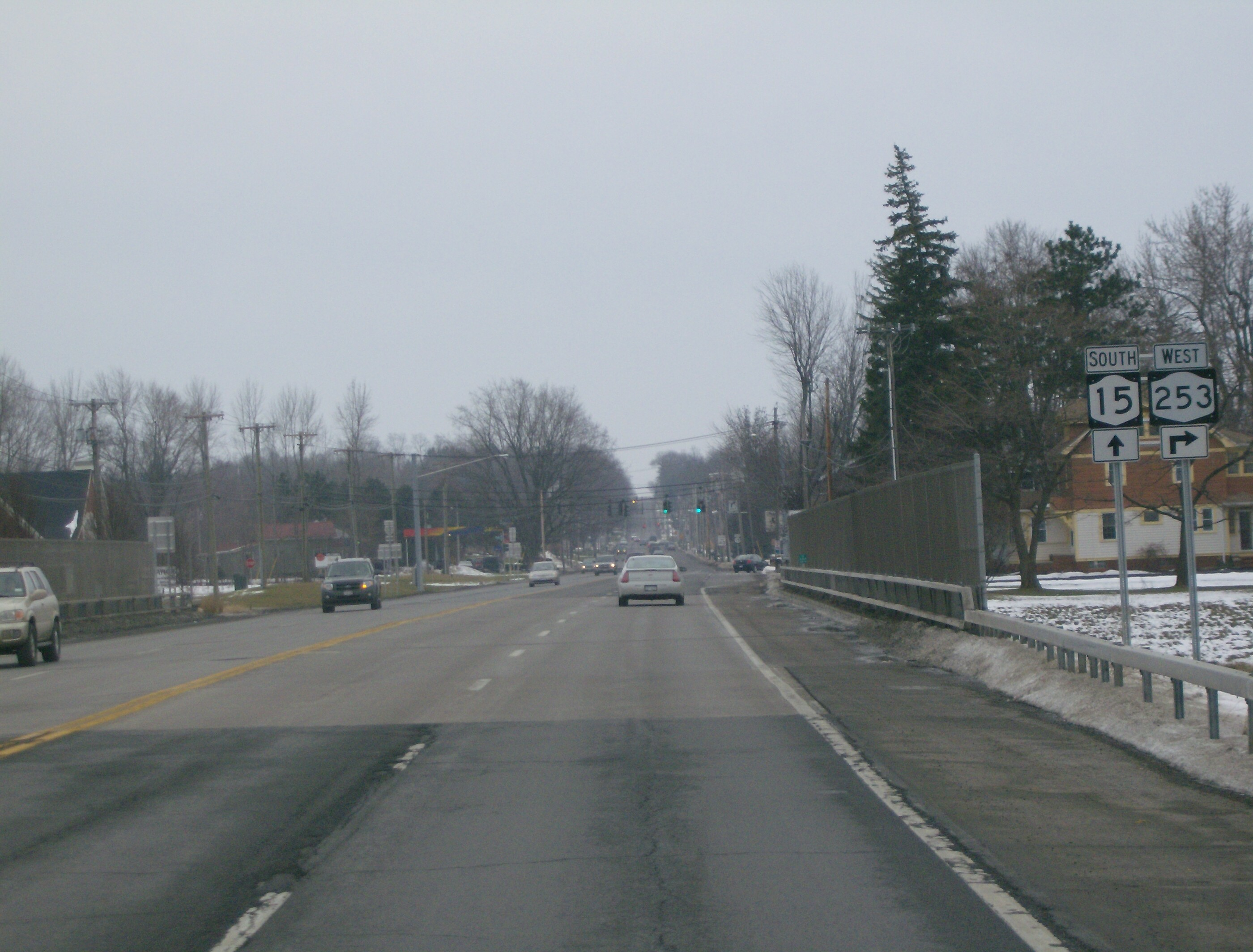 Passing over the New York State Thruway on New York State Route 15 southbound and New York State Route 253 westbound in Henrietta. NY 253 leaves NY 15 at the traffic signal in the near background to follow Thruway Park Drive. At the light in the far background is the hamlet of West Henrietta, where the south end of the NY 15/NY 253 overlap was originally located.